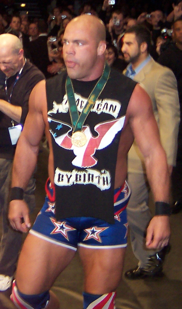 Kurt Angle shortyl after his entry in Colorlinearena in Hamburg; 16 October 2005